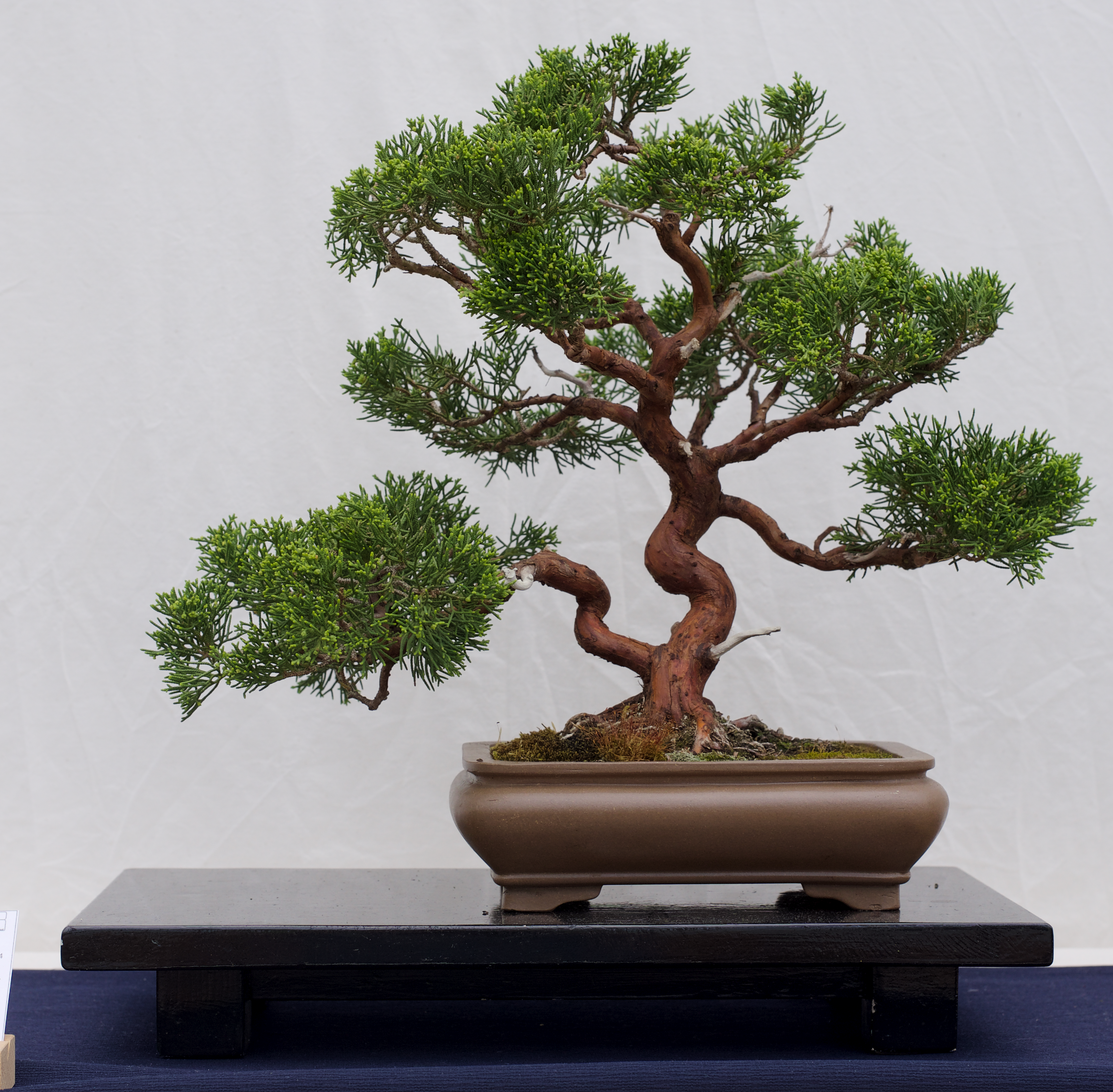 Photography of a 25 years old bonsai (Species Juniperus chinensis) taken on a bonsai exhibition at the botanical garden in Berlin.